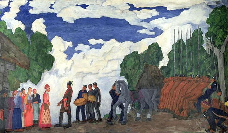 Kalev Proposing Marriage